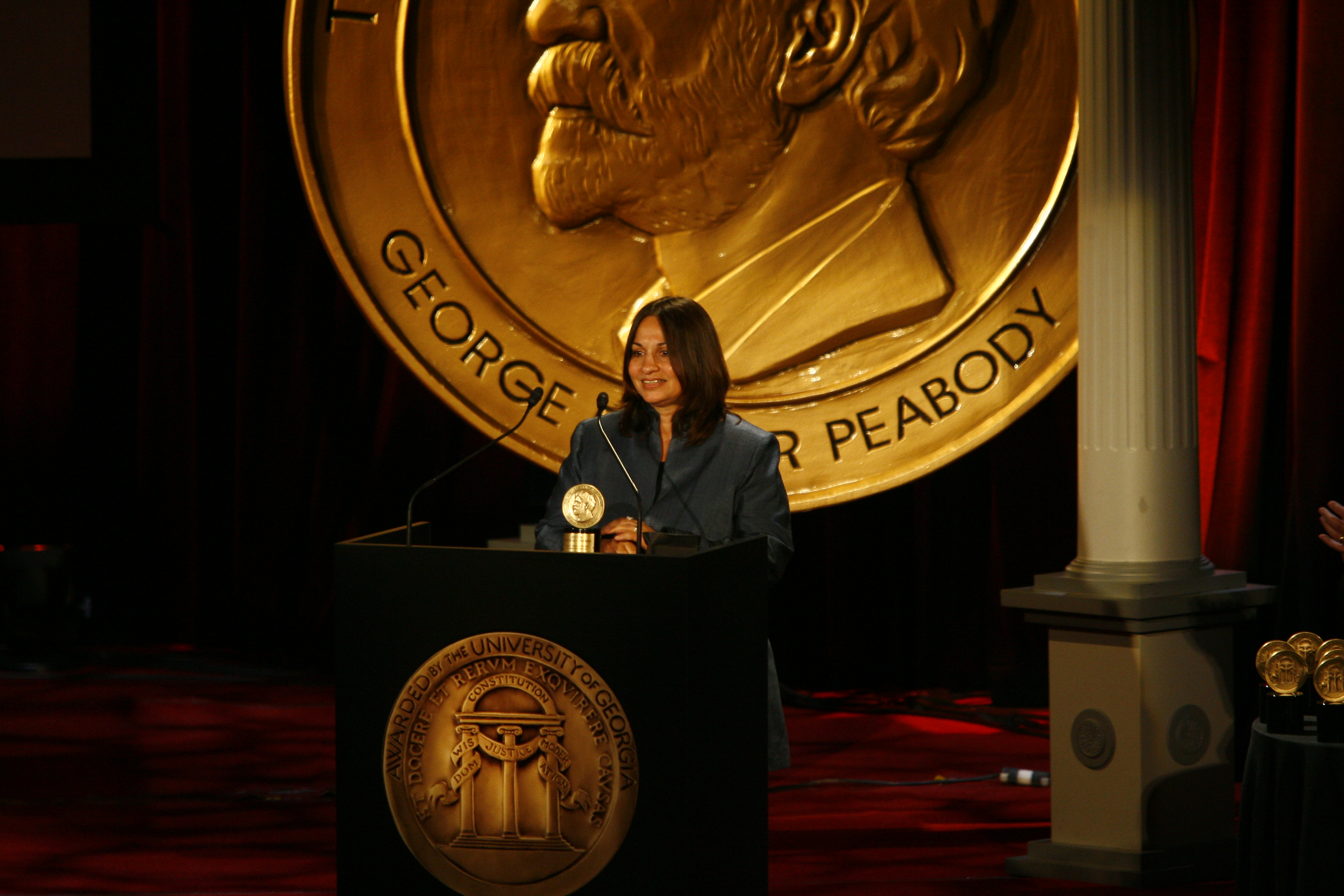 69th Annual Peabody Awards Luncheon Waldorf=Astoria Hotel New York, NY USA May 17, 2010